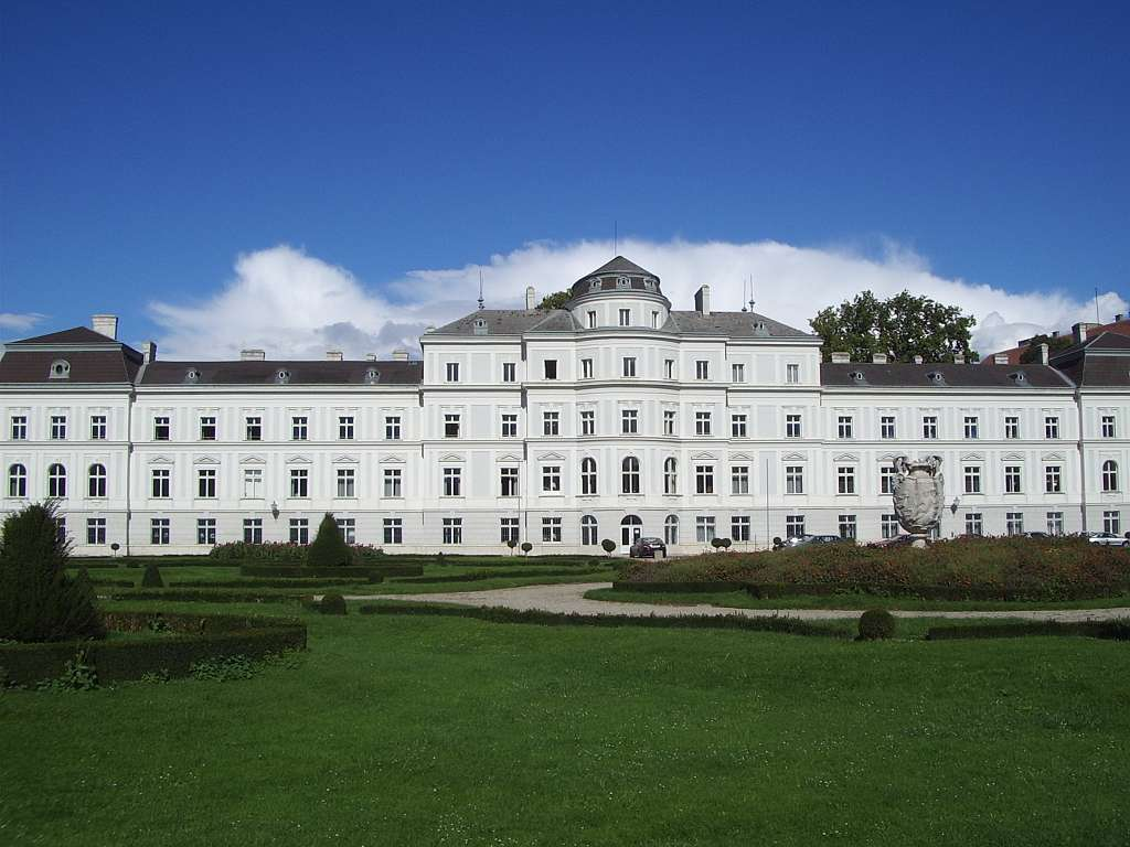 The Augartenpalais (aka Palais Augarten), located at the Augarten in Vienna. The Palais is the home of the famous Wiener Sängerknaben.